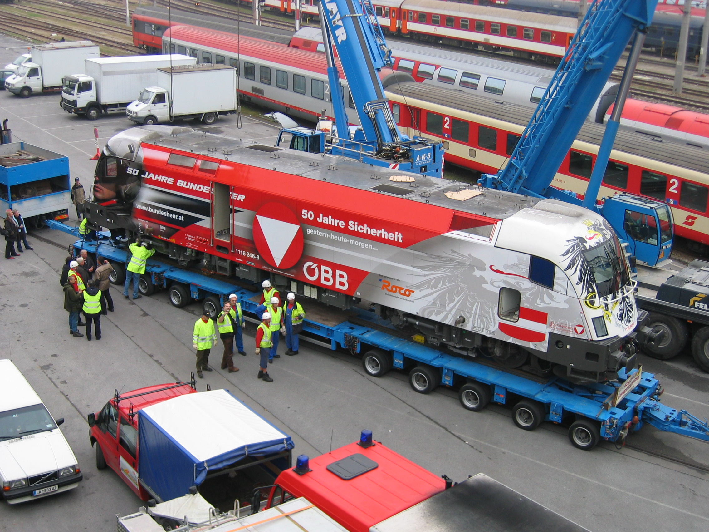 ÖBB Taurus 1116 246-8 50 years Bundesheer at Wien Westbahnhof depot. Roof equipment is dismantled for road transport through Vienna for displaying the locomotive on the Rathausplatz. ("eagle end")